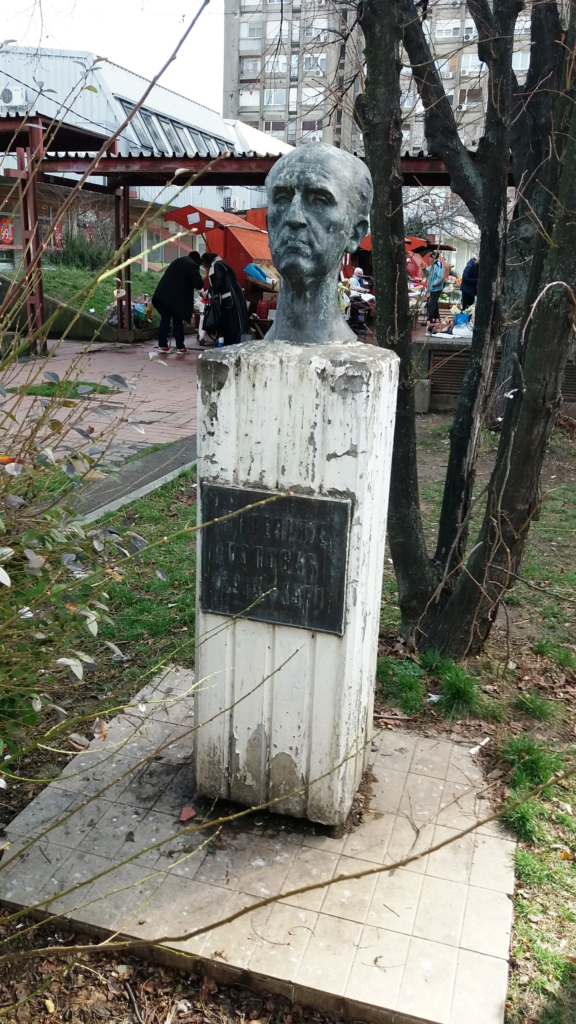 Bust of Milentije Popović in New Belgrade